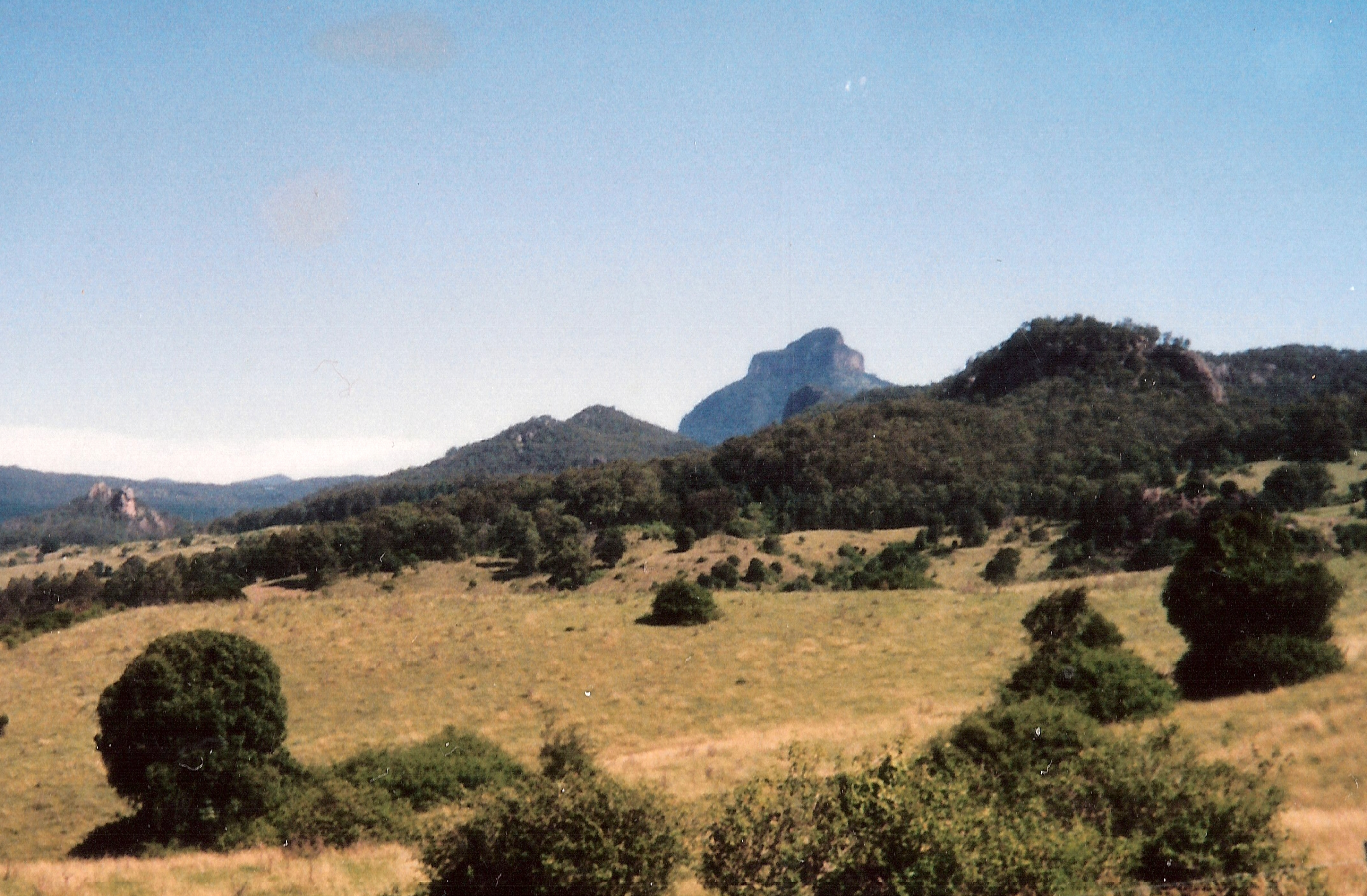 Scan of photo looking south to Mount Lindesay, Queensland, Australia.